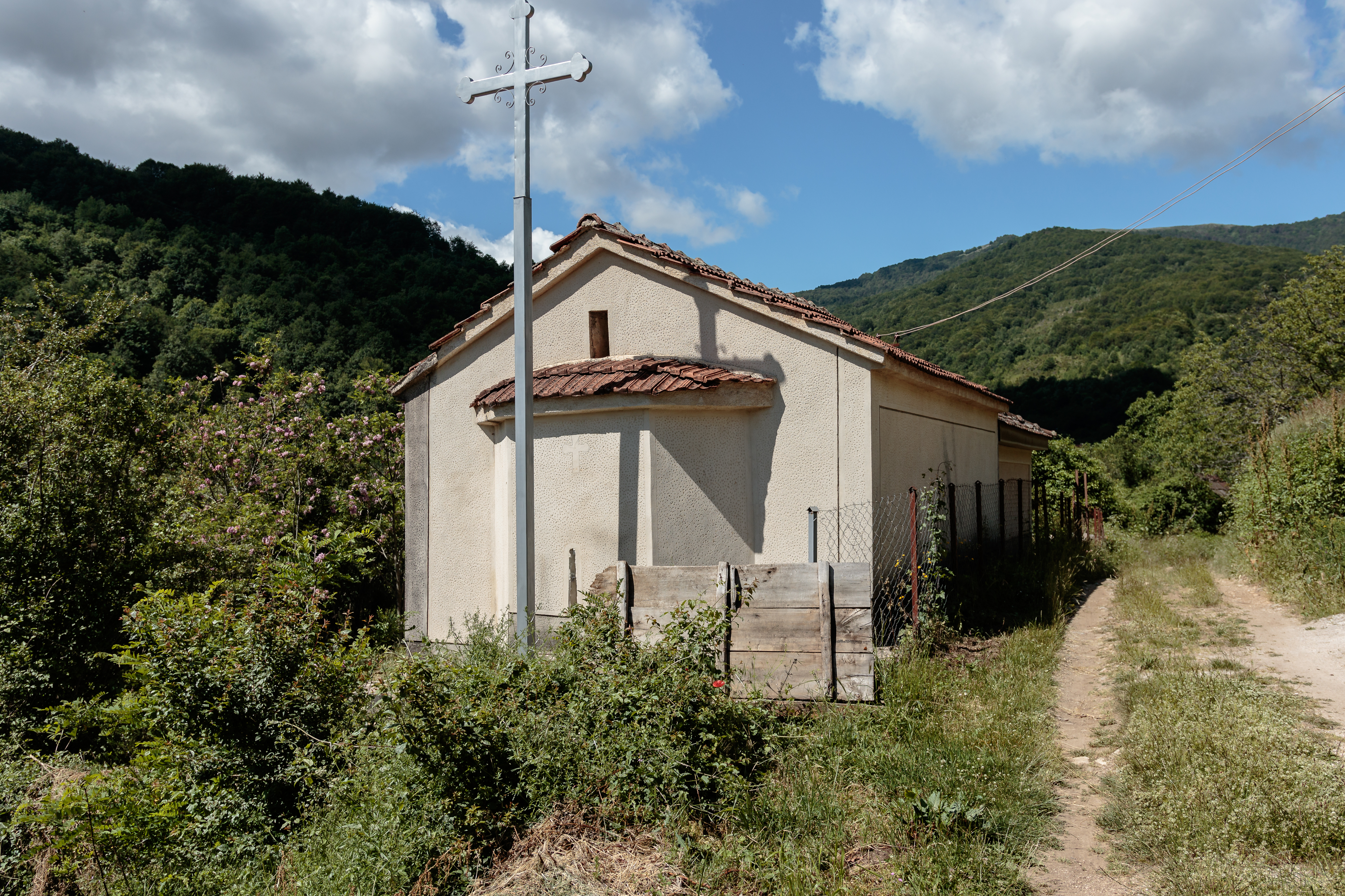 View of the St. Petka Church in the village Golemo Ilino